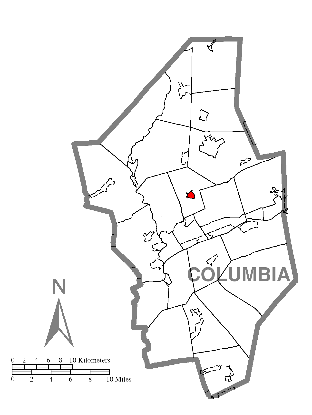 A map of Columbia County showing Orangeville, Pennsylvania (alternate) highlighted on the map.